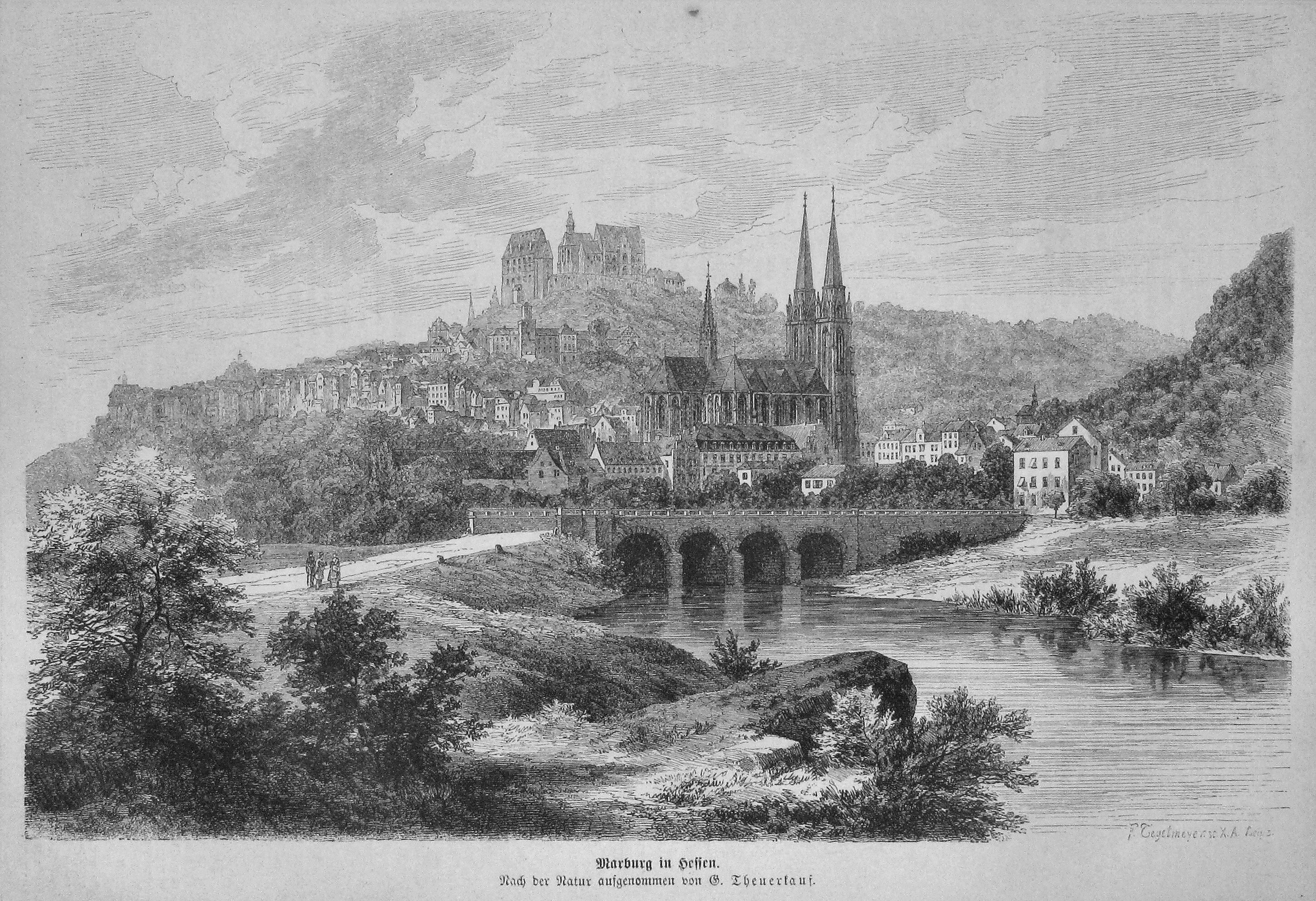 caption: "Marburg in Hessen. Nach der Natur aufgenommen von G. Theuerkauf."